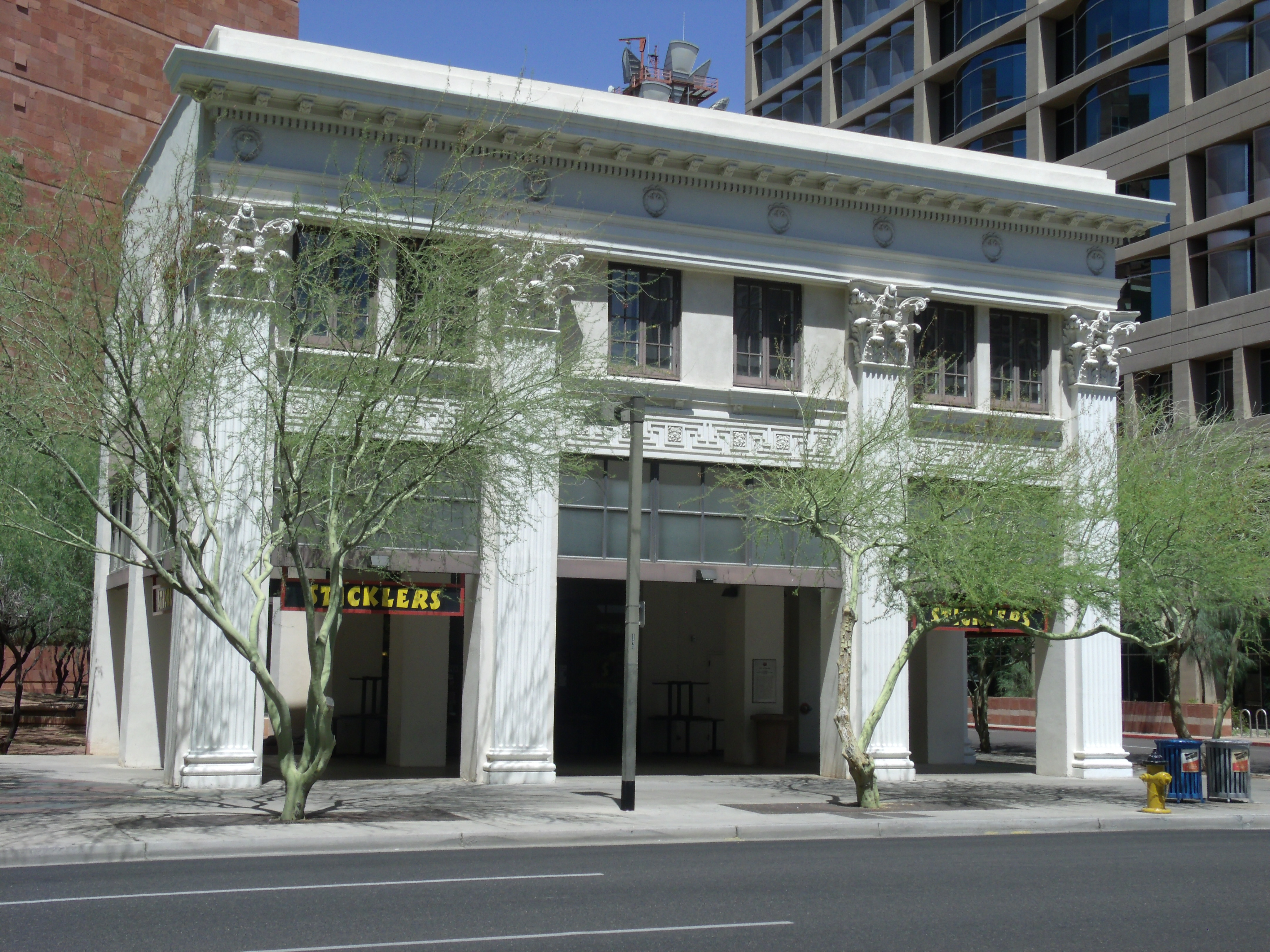 Front view of the J.W. Walker Building, also known as the Centarl Arizona Light and Power Building, which was built in 1920. The building is located at 12th N. 4th Ave. in Phoenix, Arizona. It was added to the National Register of Historic Places in 1985. Reference number 8500